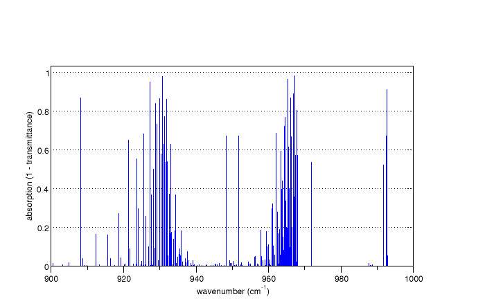 Simulated spectrum of symmetric bending vibration in ammonia